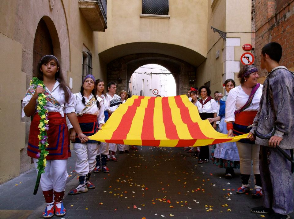 Senyera at Portal del Nin, Festa Major 2012, Vilanova i la Geltrú